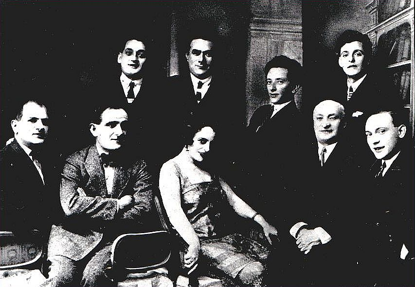 Yiddish theater actress Clara Young with her theater troup